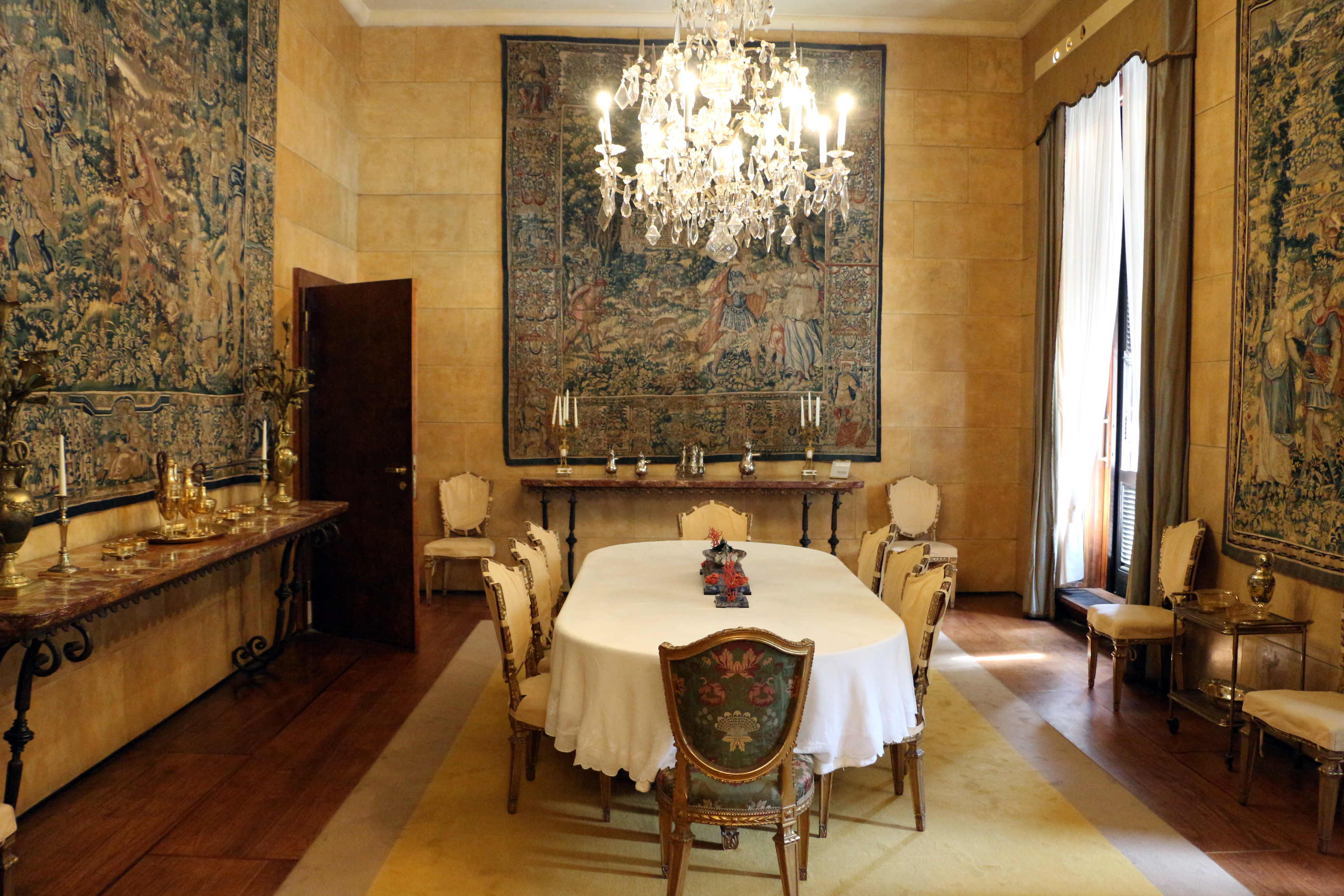 Villa Necchi Campiglio (Milan) - Interior